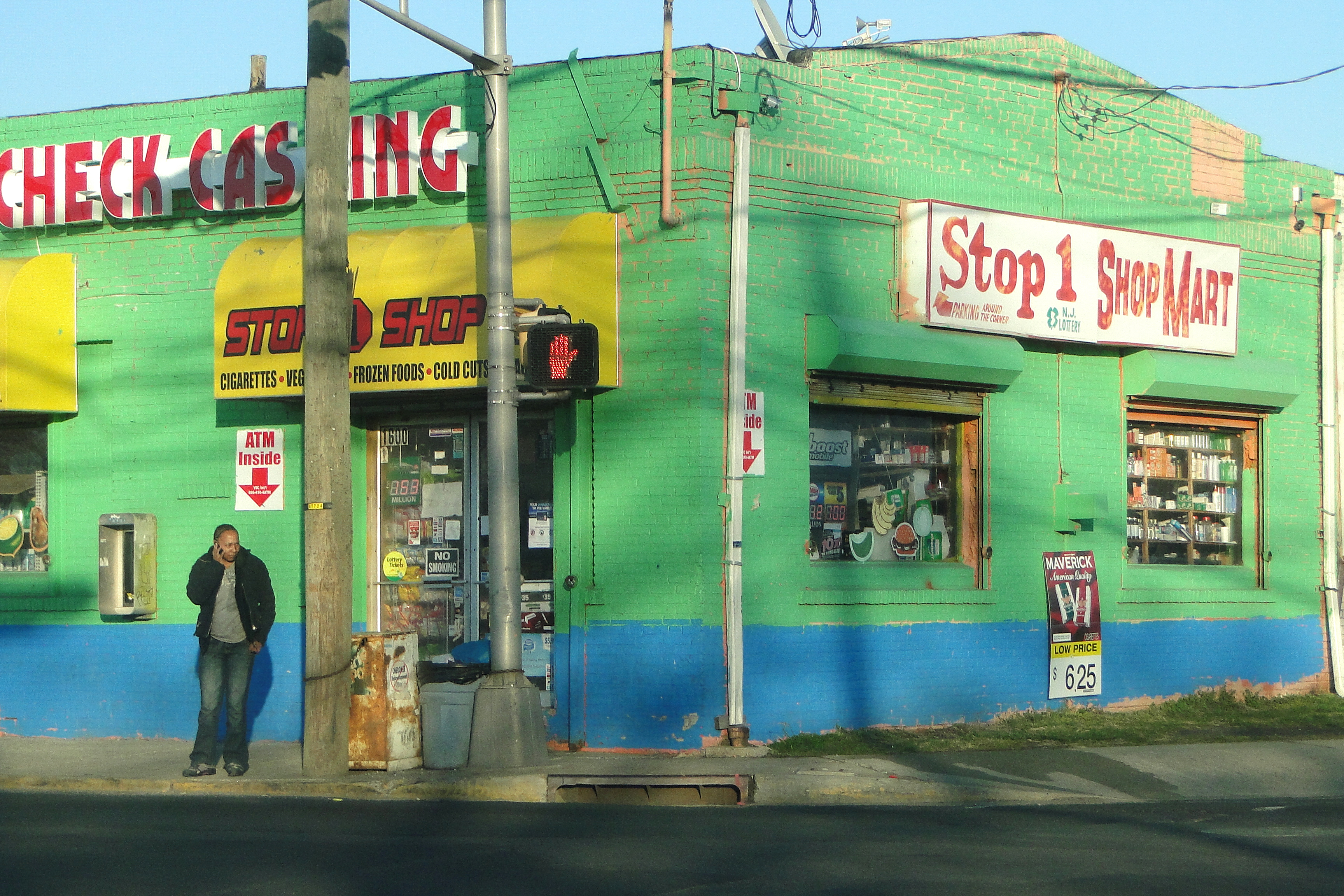 Inner-City Street Scene - Camden - New Jersey - 04